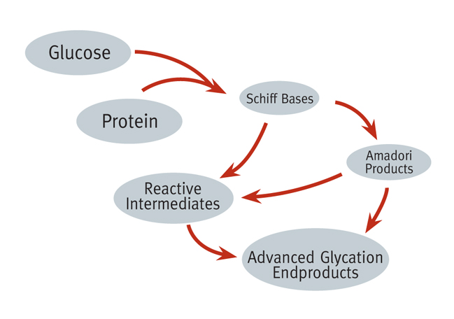 AGEs accumulate over a person’s lifetime. AGEs play a key role in the pathogenesis of many age-related diseases, such as diabetes, cardiovascular disease and renal failure